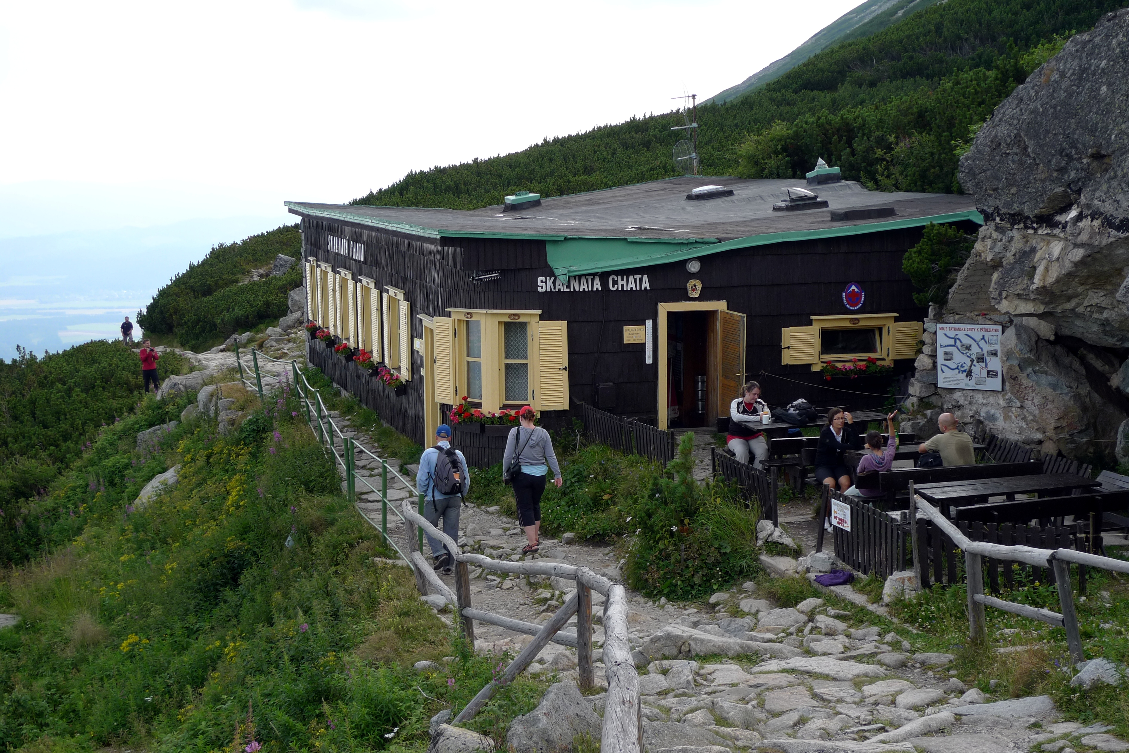 Skalnatá chata Mountain hut in the High Tatra Mountains, Slovakia Česky: Skalnatá chata pod Skalnatým plesem ve Vysokých Tatrách